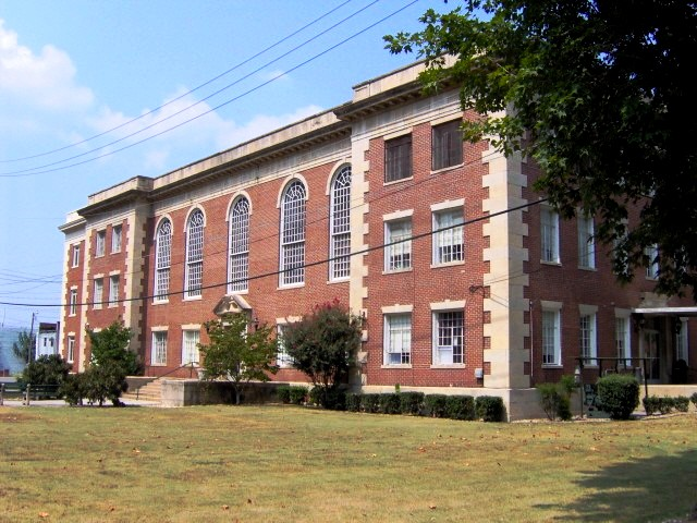 Cocke County Courthouse in Newport, Tennessee, constructed in 1930. Its predecessor, which had been built in 1884 after heated controversy over the county seat, burned in the 1920s. The building was placed on the National Register of Historic Places in 1995.